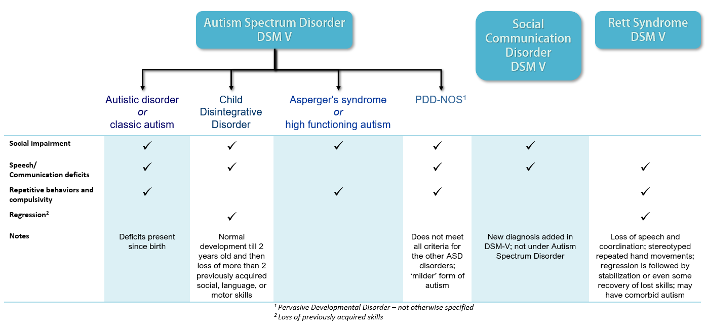 Separate diagnosis in DSM-IV that are now under the umbrella of autism spectrum disorder in DSM-V